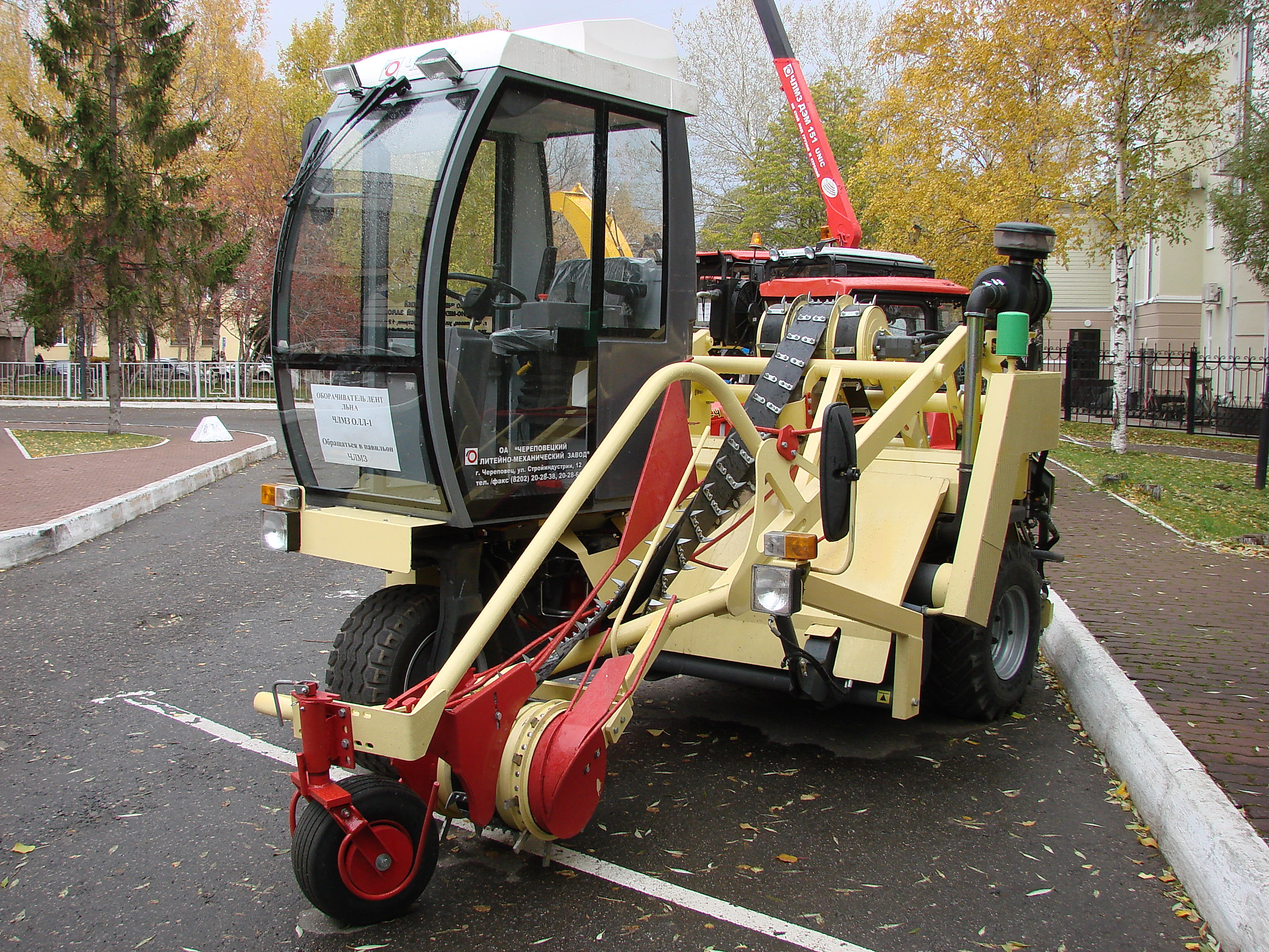 Russia, Vologda, Exhibition-Fair «My house», production of Cherepovets Casting-Mechanical Plant